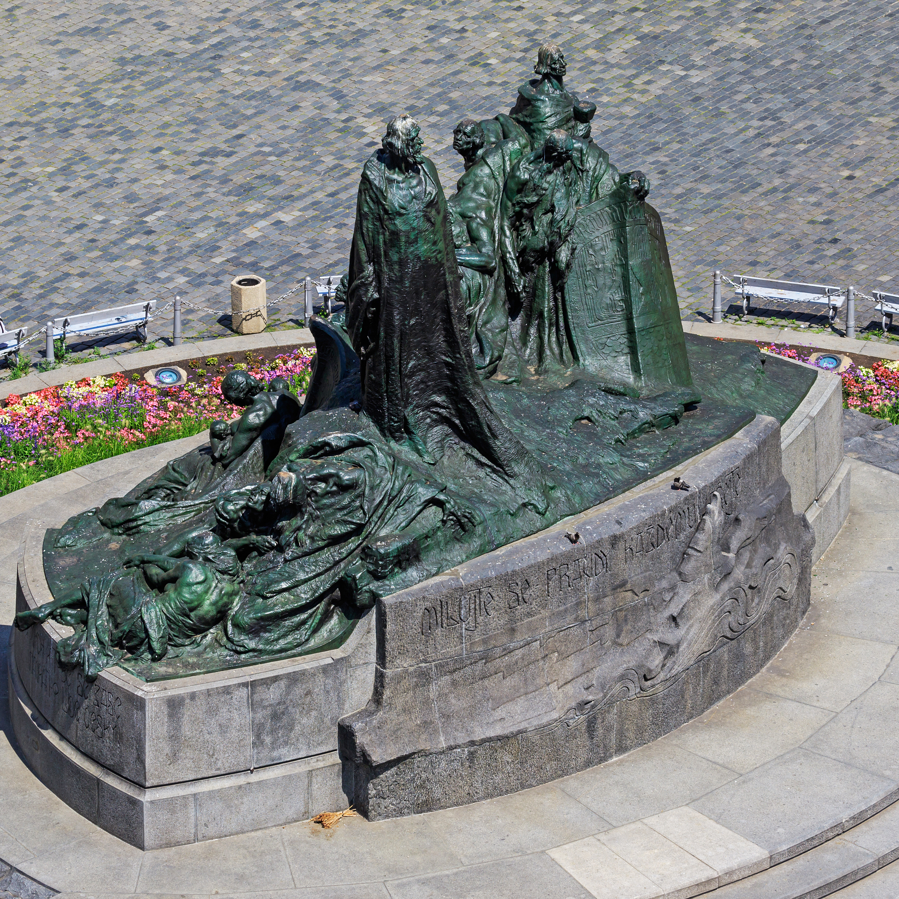 View from the tower of Old Town Hall in Prague (Czech Republic)